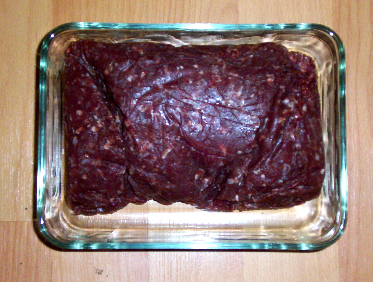 ground North American Elk meat, approx one pound, in a Pyrex dish